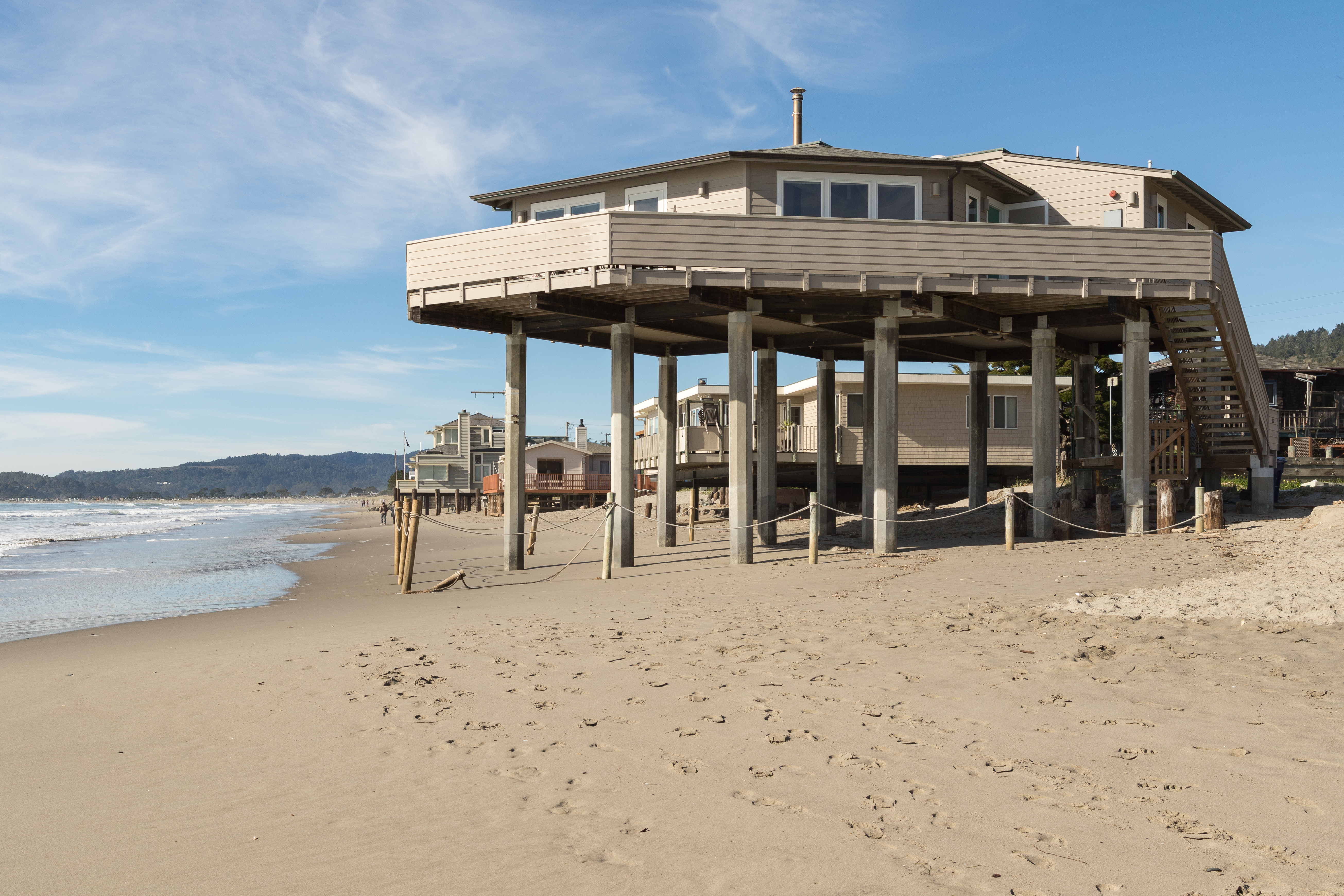 House on stilts in Stinson Beach, Marin County, California